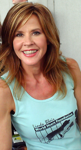 Actress Linda Blair at Collectormania in 2008